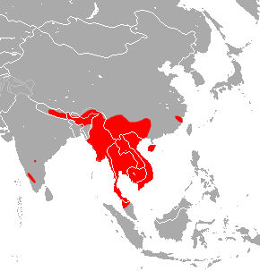 Pomona Roundleaf Bat (Hipposideros pomona) range